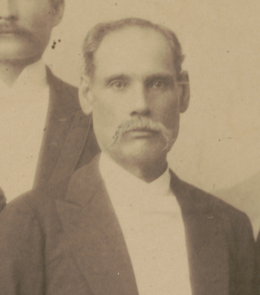 Hui Aloha ʻĀina o Na Kane or the Hawaiian Patriotic League for Men, which petitioned against annexation. Representative Committee of Delegates of the Hawaiian People to present a memorial to Hon. James H. Blount, praying for the restoration of the monarchy under Queen Liliuokalani.